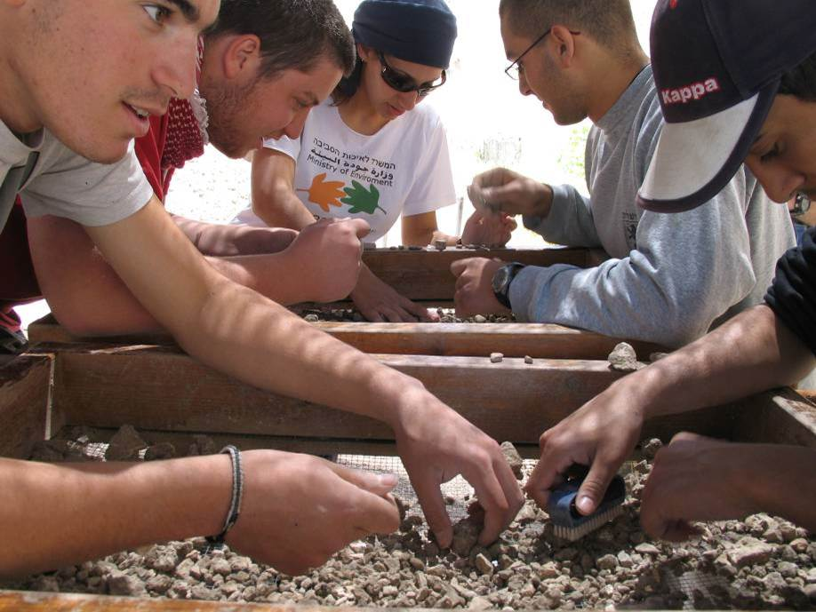 Archaeological Sifting of Debris from the Temple M, Archeological sites of Israel